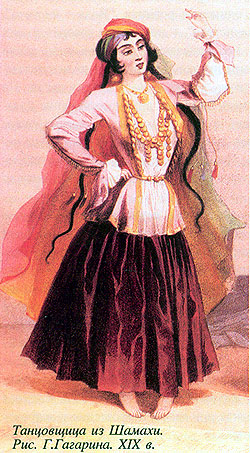 Dancer from Shamakhy